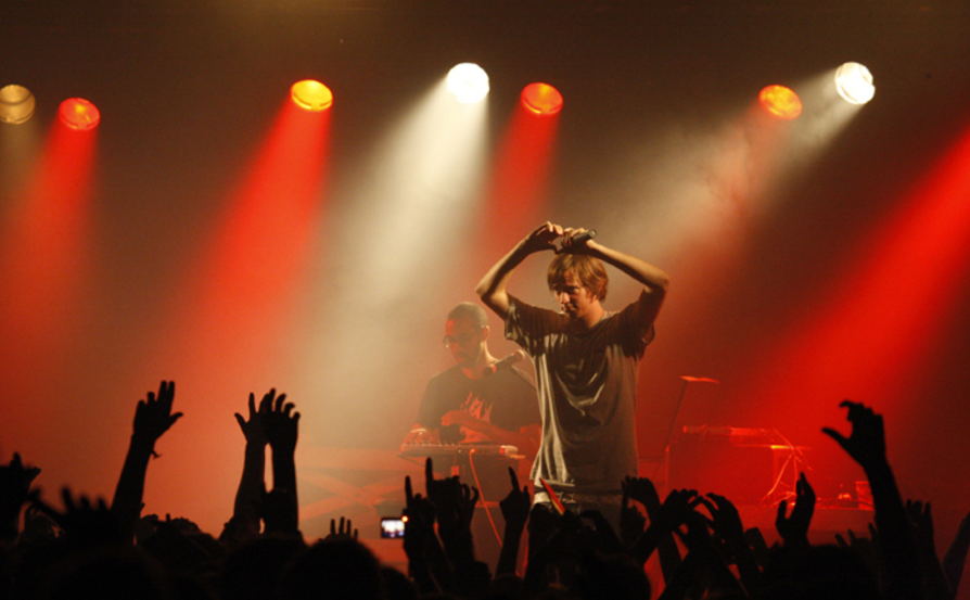 zeverrock